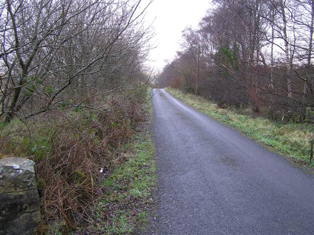 Road at Derrylahan Heading NNE to Mullaghboy